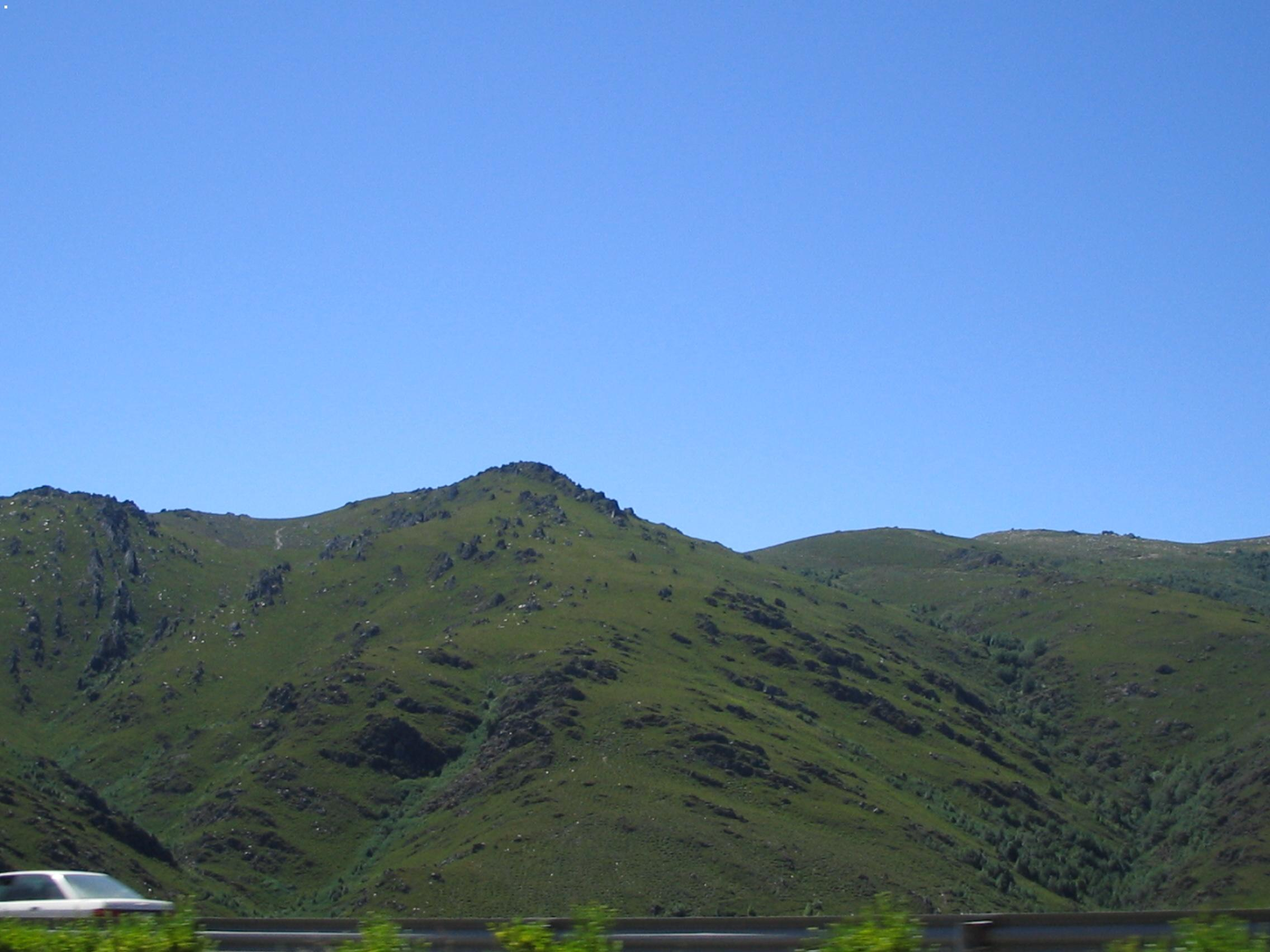 Mountain in Padornelo, in the province of Zamora (Spain)